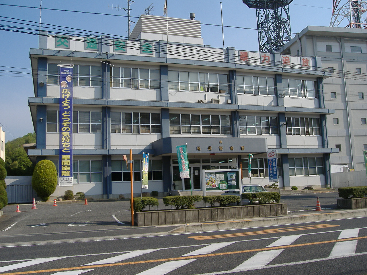 Onomichi Police stations (Onomichi, Japan)